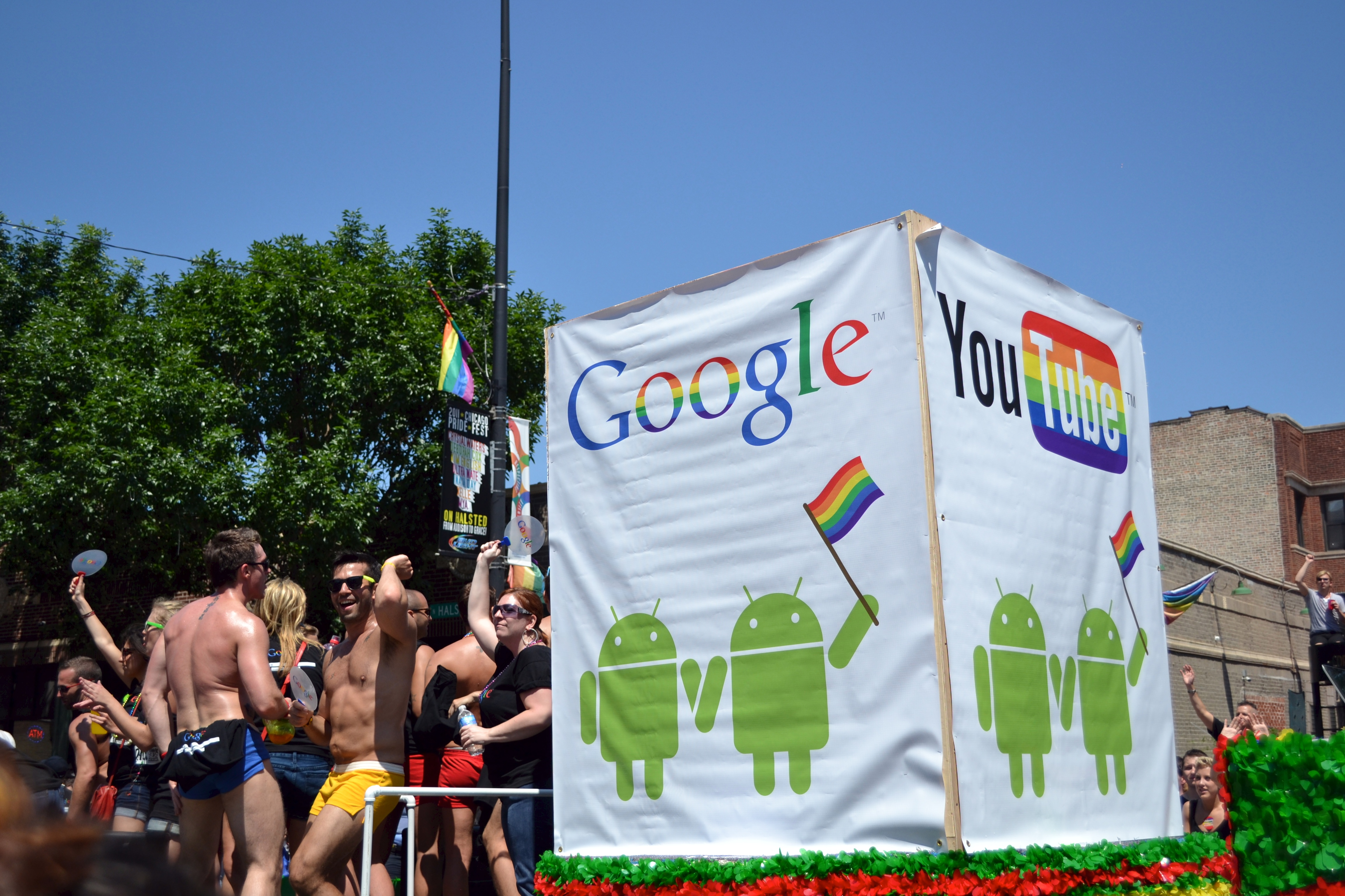 Google loves the gays.